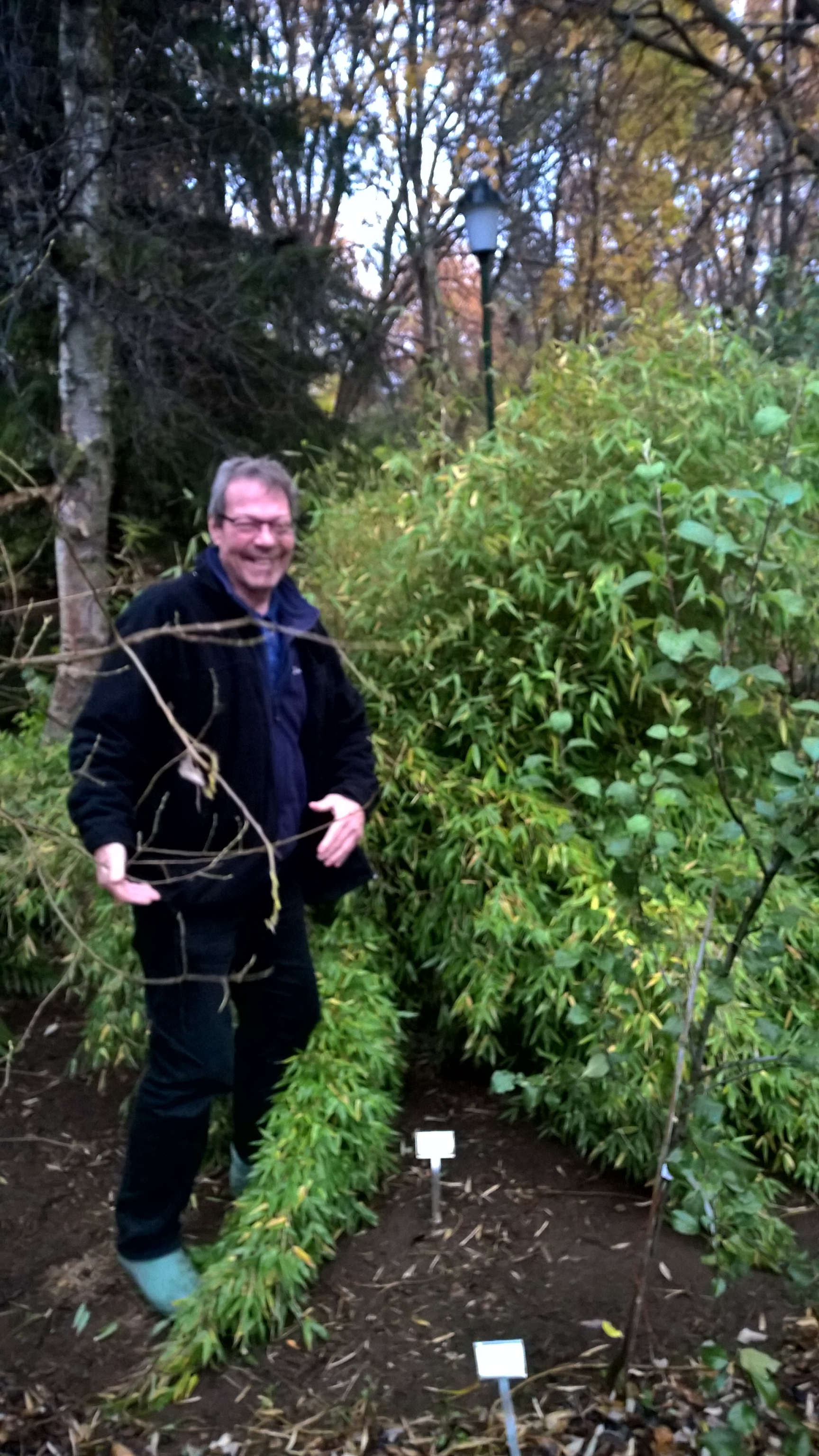 Fargesia murielae in Iceland